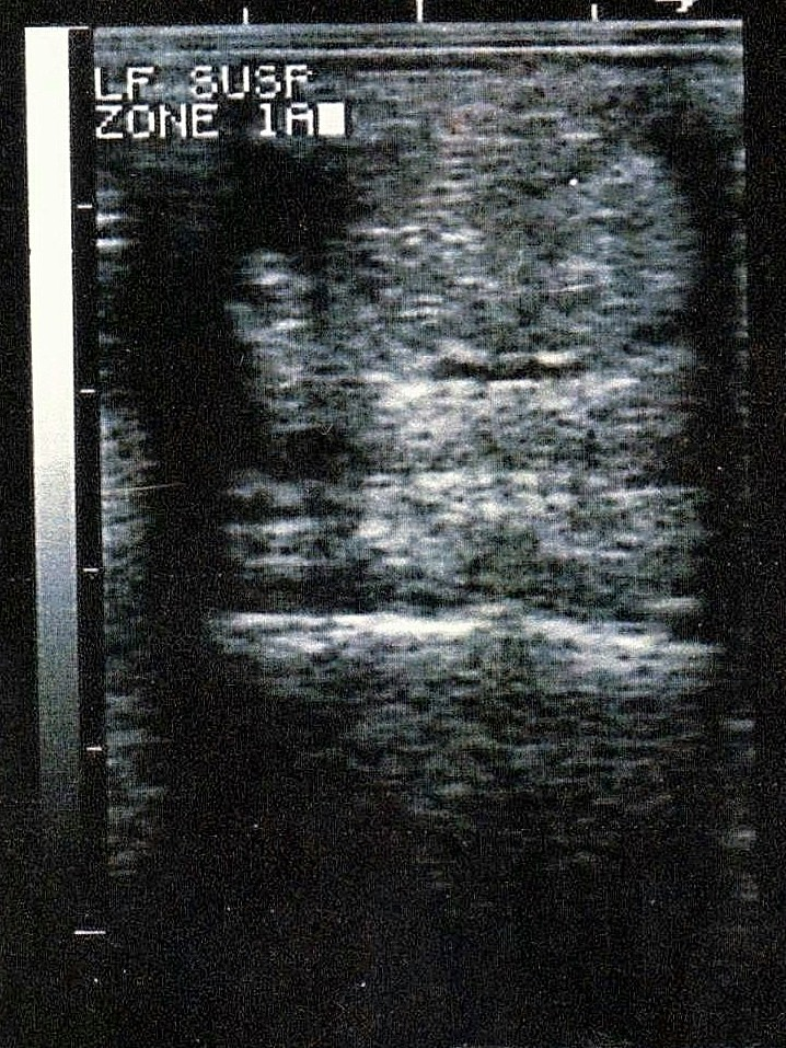 X-Ray of Zippo's knee